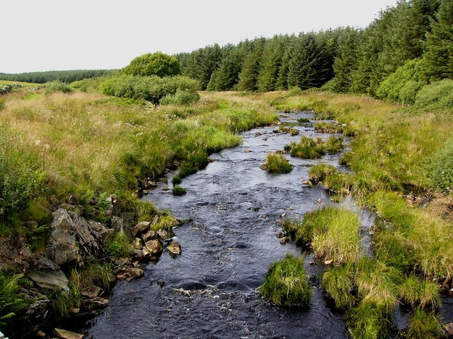 The Tarf Water The water is almost black from peaty runoff from the moor and forestry plantations.